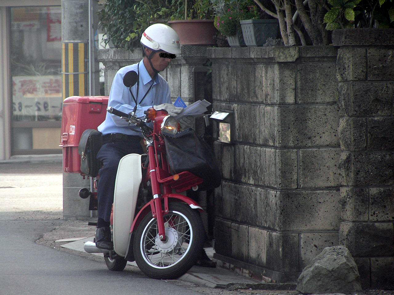 郵便配達夫 - This is a mail man's motor scooter used in Japan.